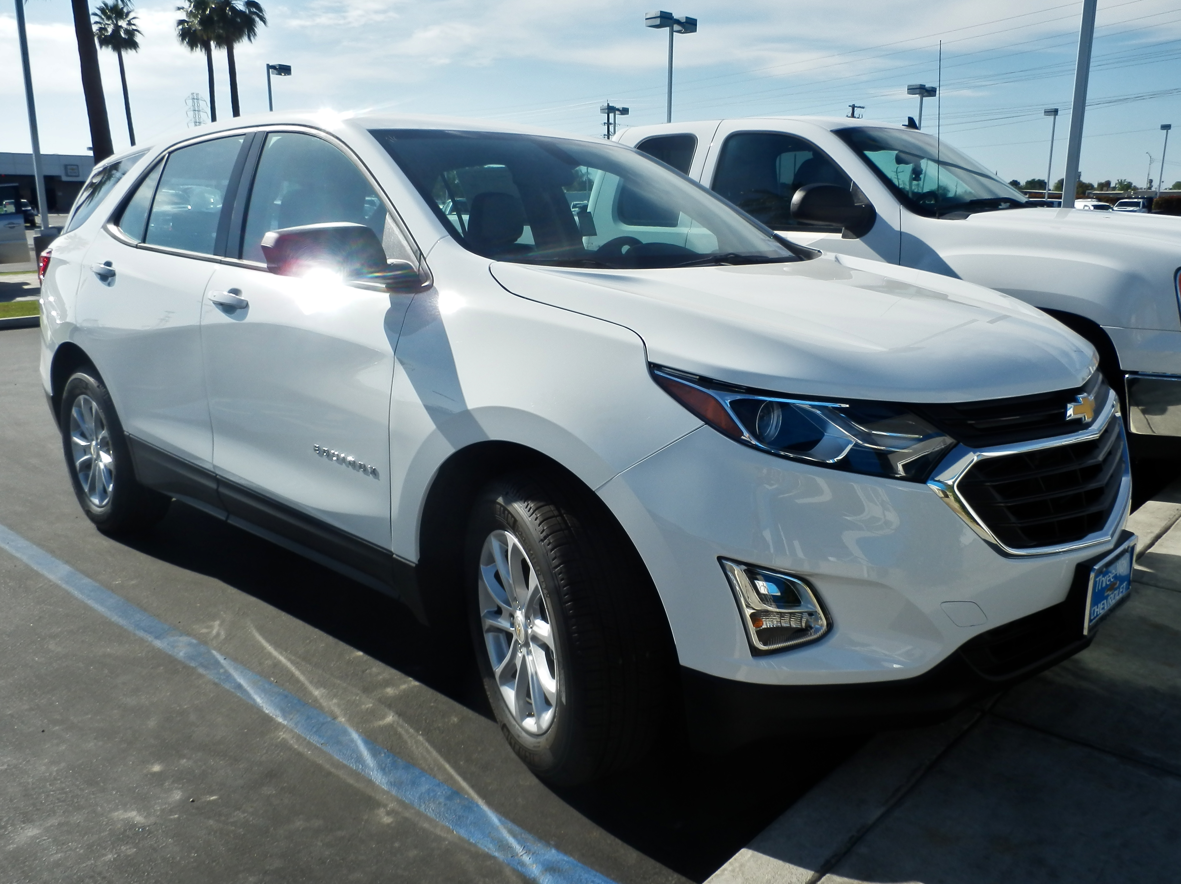 Chevrolet Equinox in Bakersfield